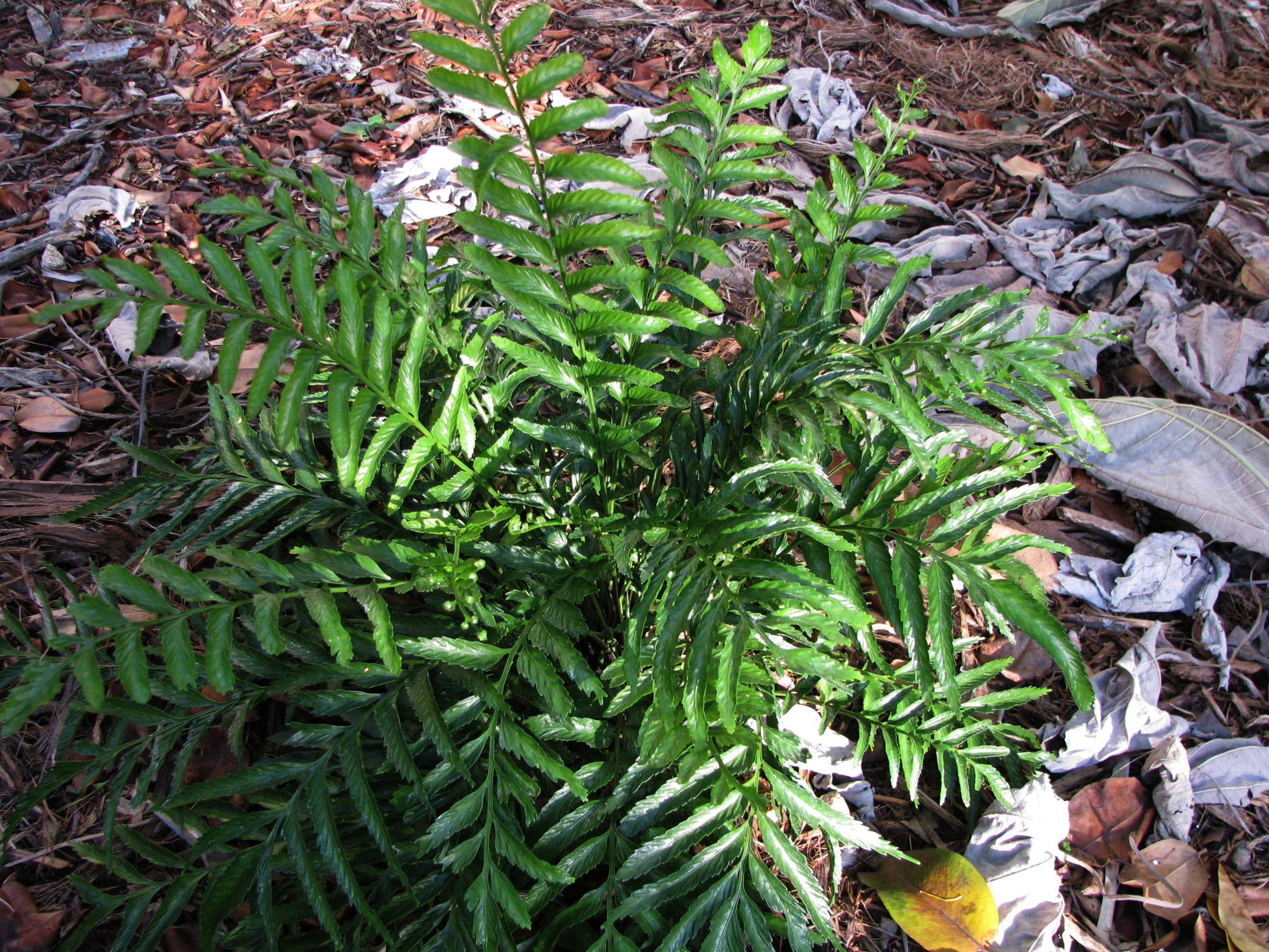 Kūau or Kaulfuss' spleenwort Aspleniaceae Endemic to the Hawaiian Islands Oʻahu (Cultivated)